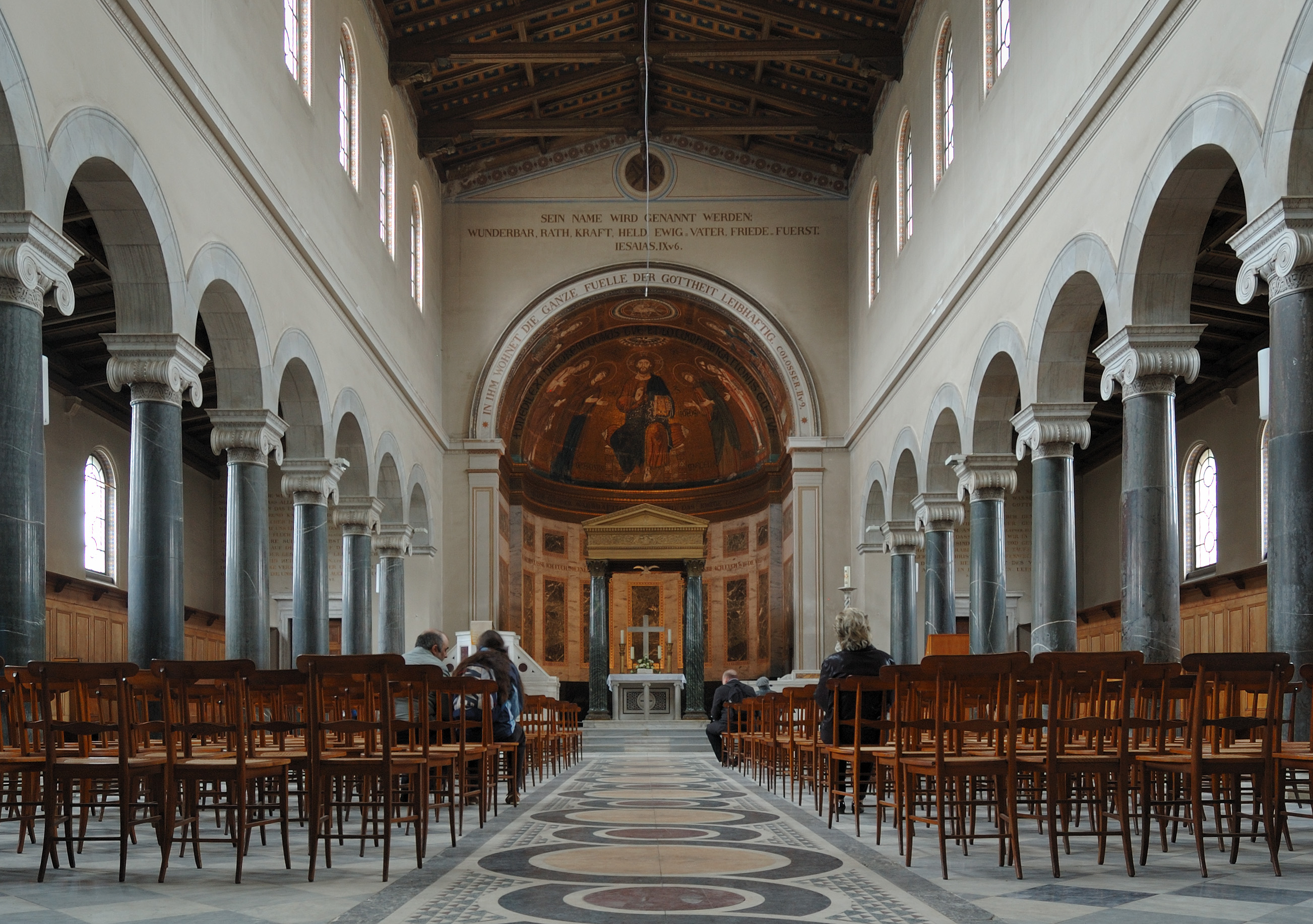 Interior of the Church of Peace (Sanssouci).